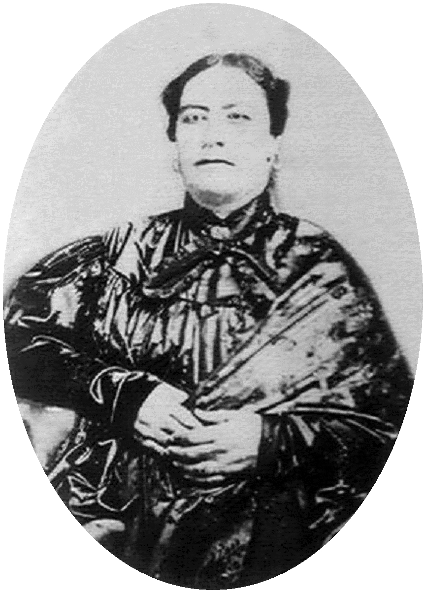 Fanny Kekuiapoiwa Kekelaokalani Young Lewis Naʻea (1806–1880), was a member of the royal family of the Kingdom of Hawaii, and mother of a Queen consort.